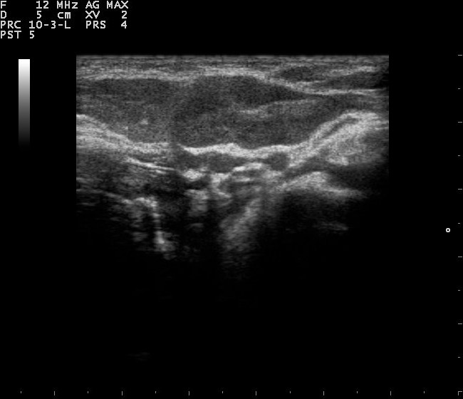 Ultrasound images of lymph nodes